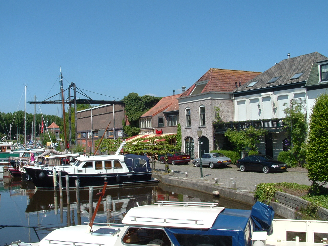 Front view of the inner harbour of the Dutch town of Steenbergen.